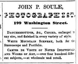 Ad for John P. Soule, Photographist; Washington St., Boston